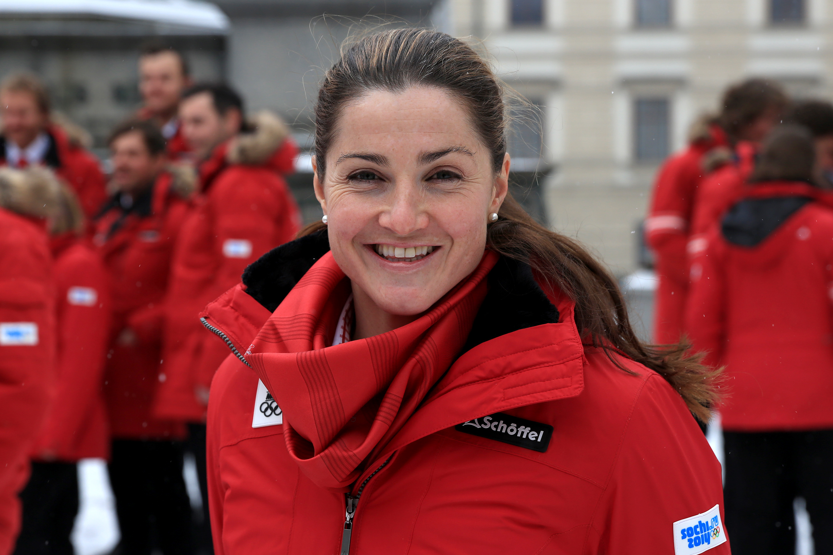 Athletes of the Austrian team for the 2014 Winter Olympics - alpine skiing: Elisabeth Görgl before the reception by Federal President Heinz Fischer at Hofburg Palace in Vienna, Austria.